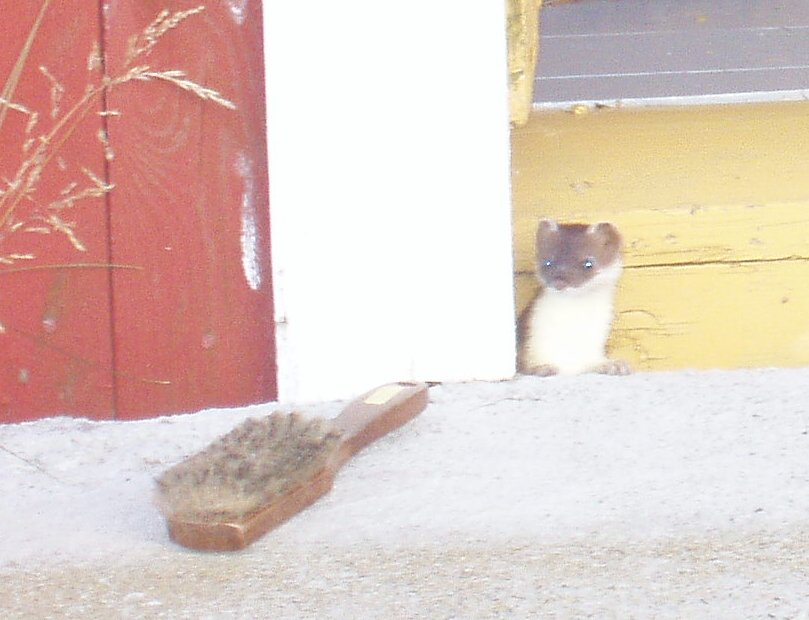 young ermine looking what's happening